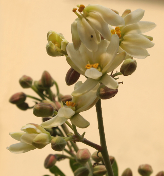 Sonjna Moringa oleifera in Kolkata, West Bengal, India.